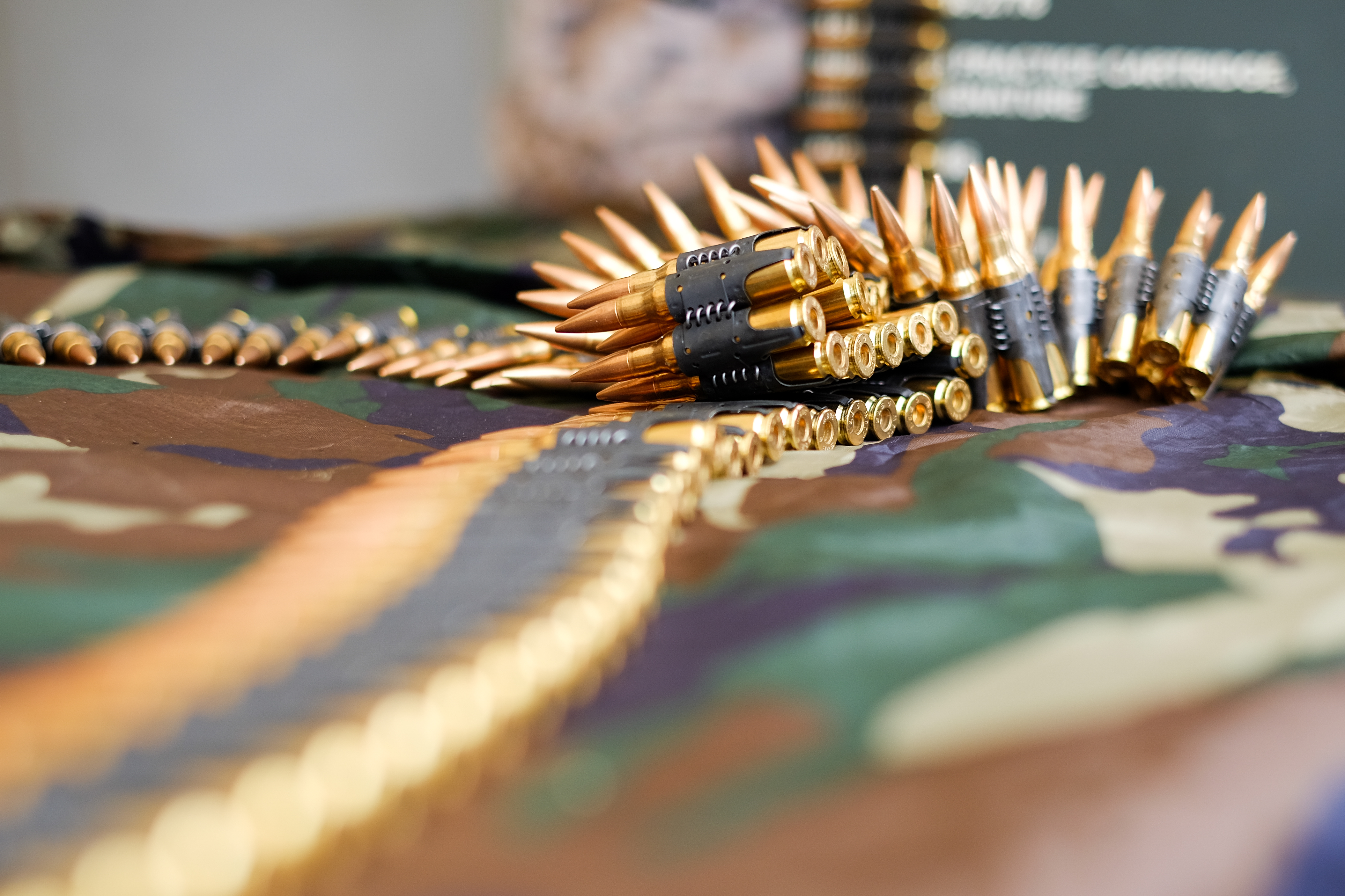 Non-disintegrating metal DM1 ammunition belt loaded with 7.62×51mm NATO rounds.